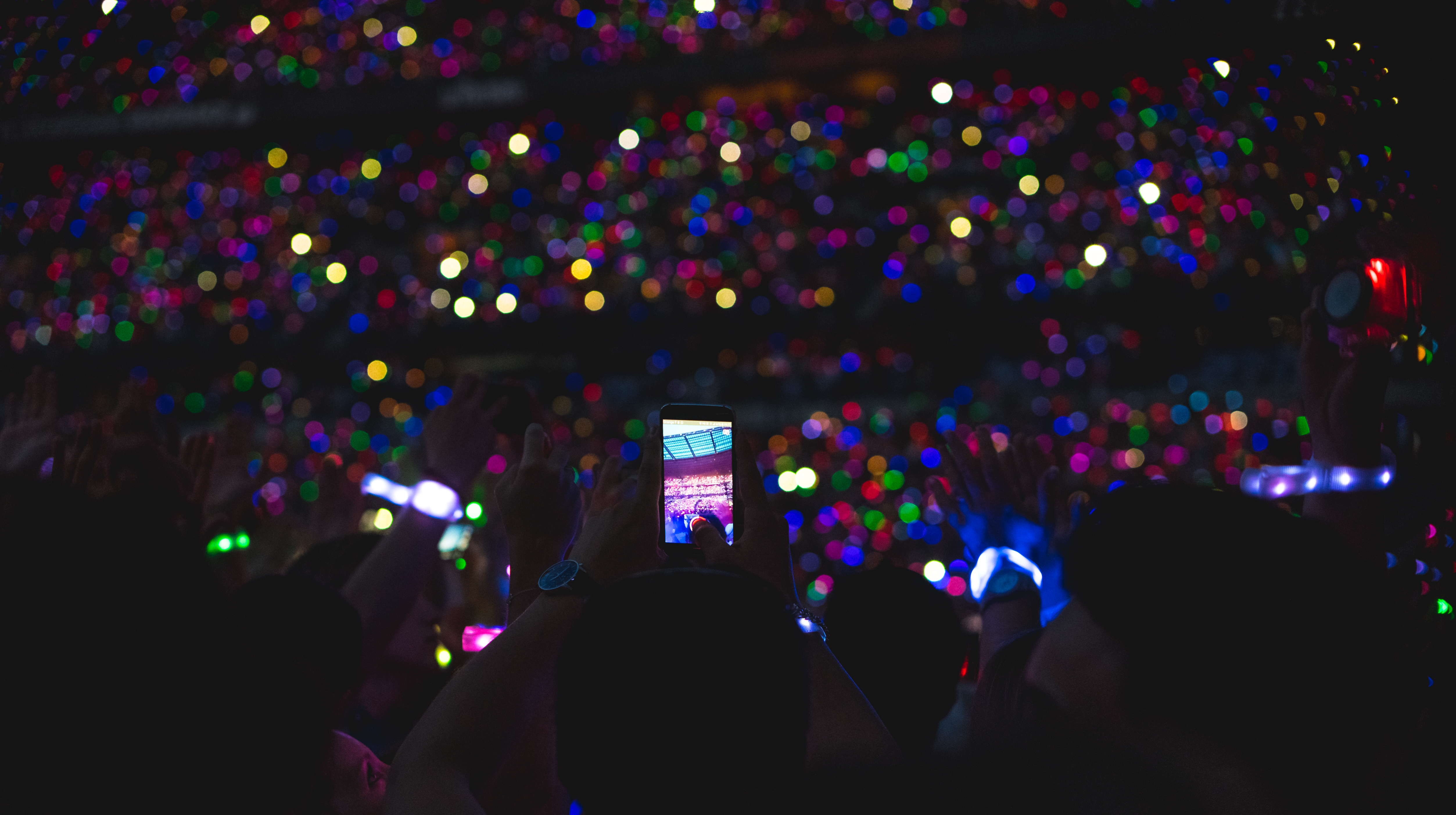 ColdplayParis160717-13